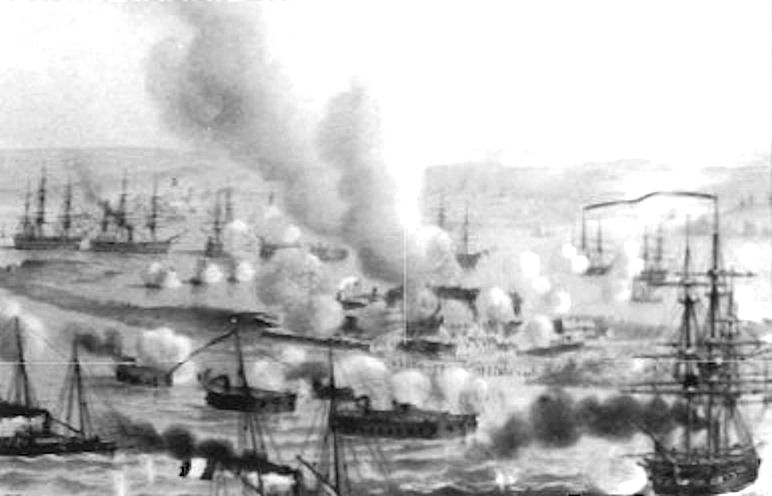 French_ironclad_floating_batteries_at_Kinburn_1855.